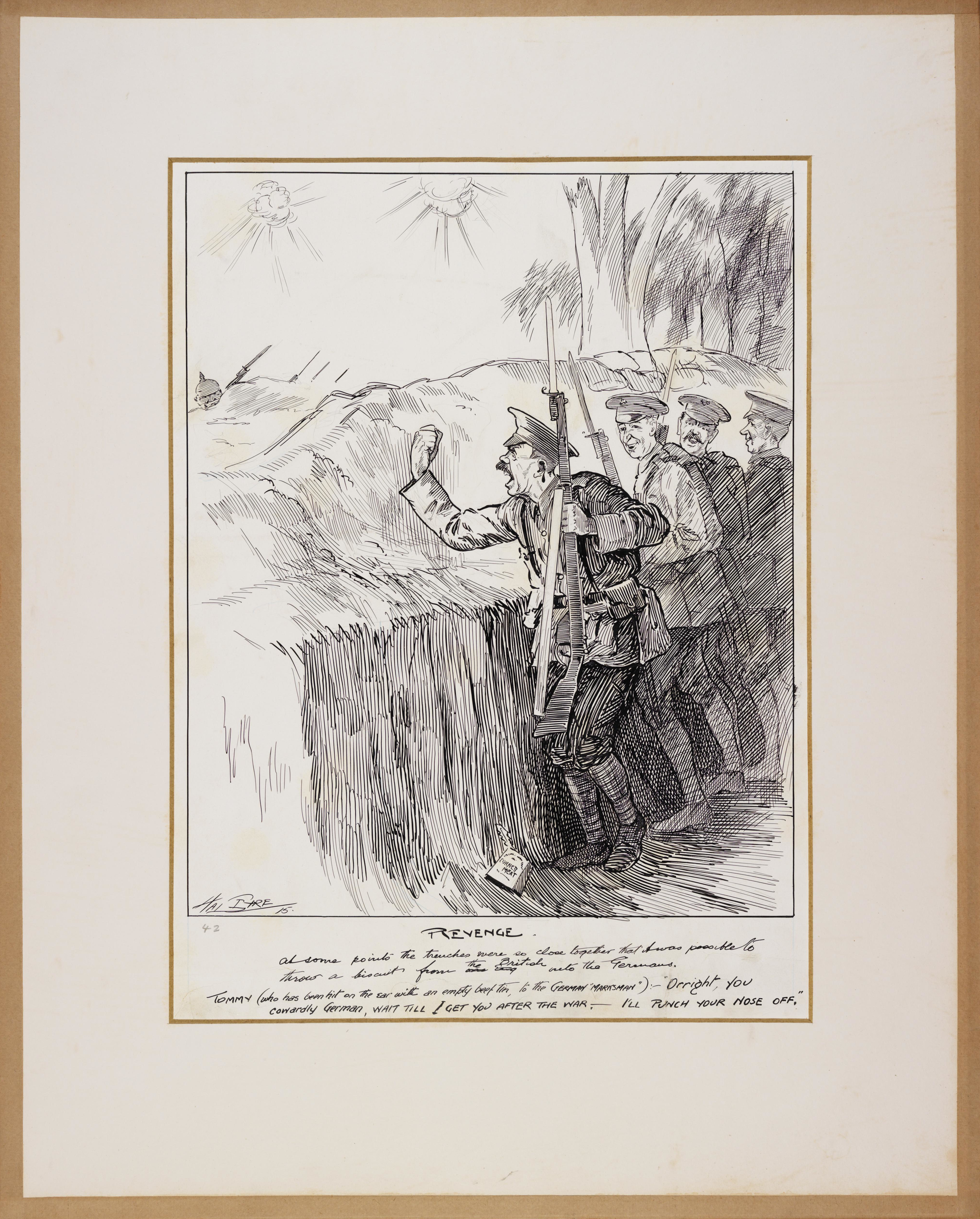 Volume 9 No. 42. Revenge - At some points the trenches were so close together that it was possible to throw a biscuit from the British into the Germans. Tommy (who has been hit on the ear with an empty beef tin, to the German marksman): "Orright you cowardly German, wait till I get you after the war, I'll punch your nose off", 1915